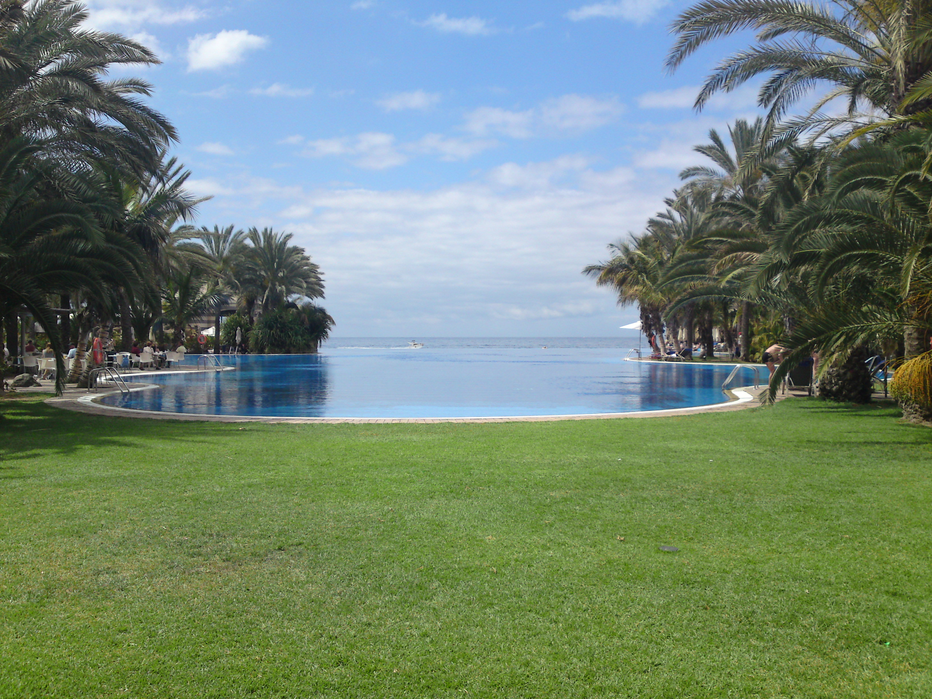 Infinity pool at Costa Meloneras hotel, Maspalomas, Gran Canaria, Spain